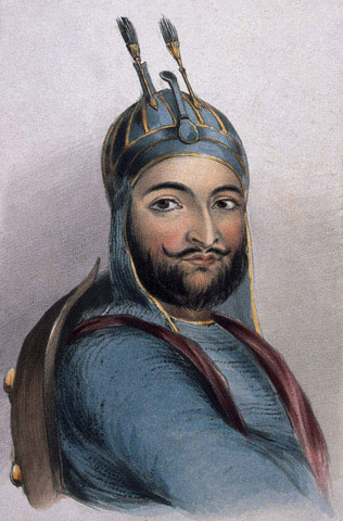 Muhammad Akbar Khan (1813-1845) was the son of Emir Dost Mohammad who was overthrown by the British in 1839 and replaced by Shah Shuja. In November 1841 Akbar Khan led the tribal insurrection against Shah Shuja which resulted in the death of the British envoys in Kabul. He also commanded the subsequent pursuit of the retreating British army from Kabul to Gandamak in 1842. He died in suspicious circumstances in 1845, with many suspecting that his father, who feared his ambitions, had poisoned him. (NAM. 1950-11-55-24)